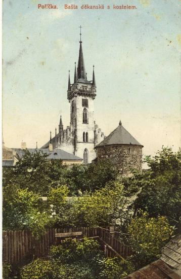 The church tower in Polička where Bohuslav Martinů was born